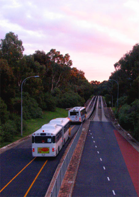 O-Bahn Busway buses entering the track